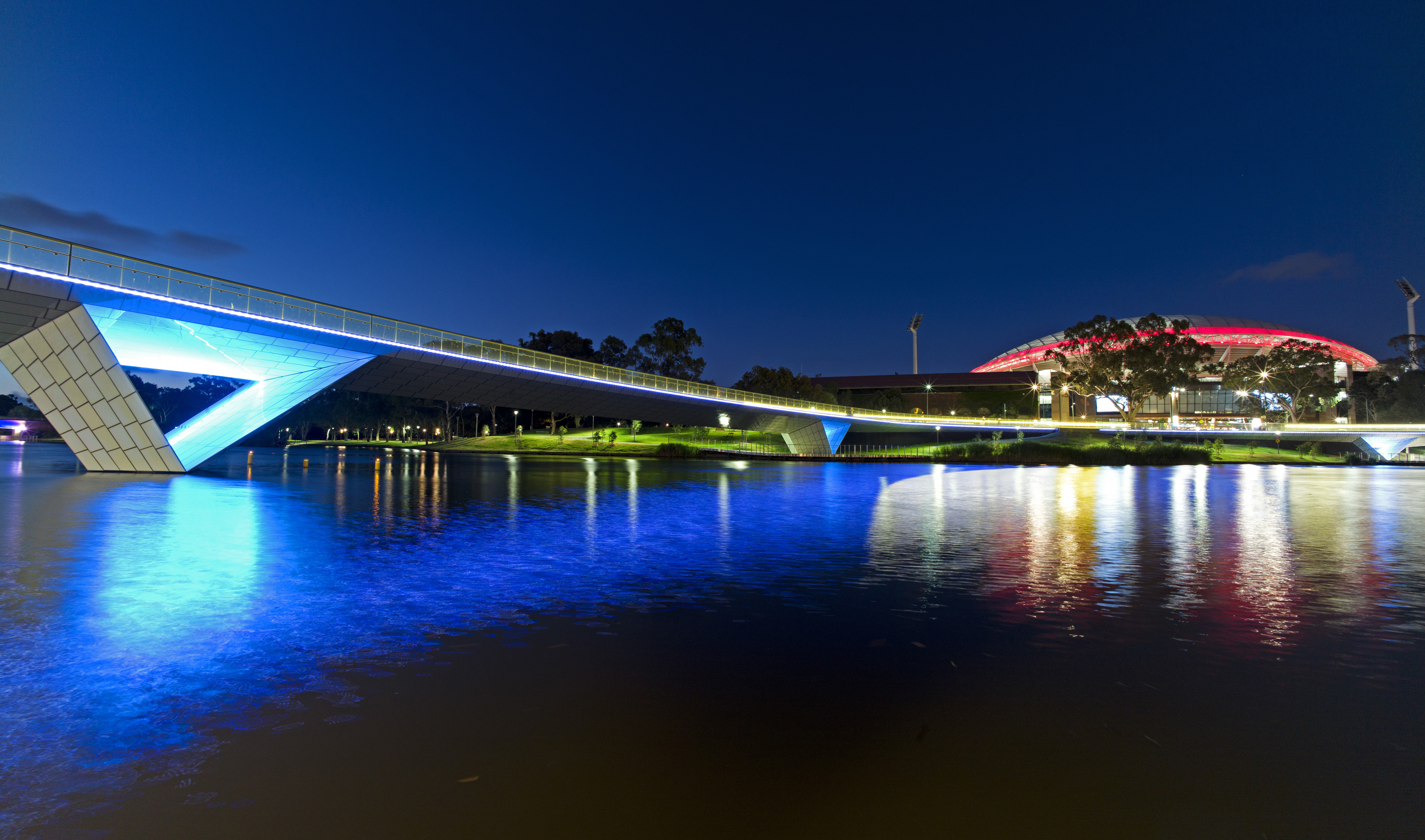 Torrens River in Adelaide